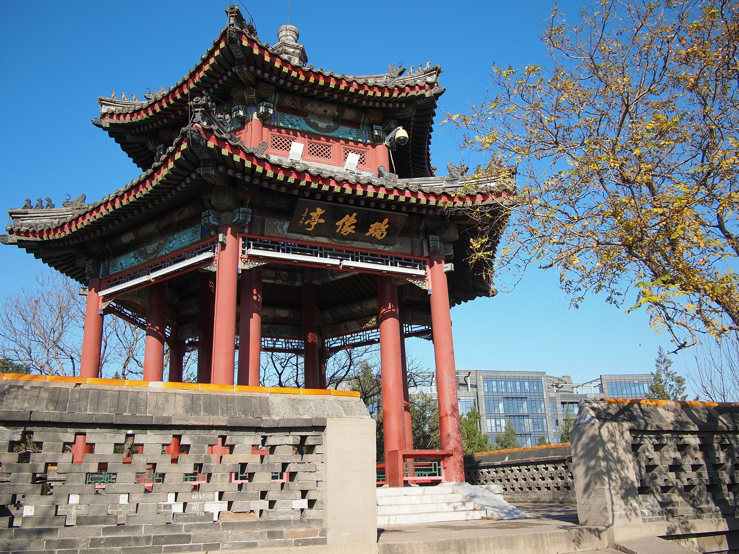 瑞像亭 - Auspicious Sign Pavilion - 2011.11